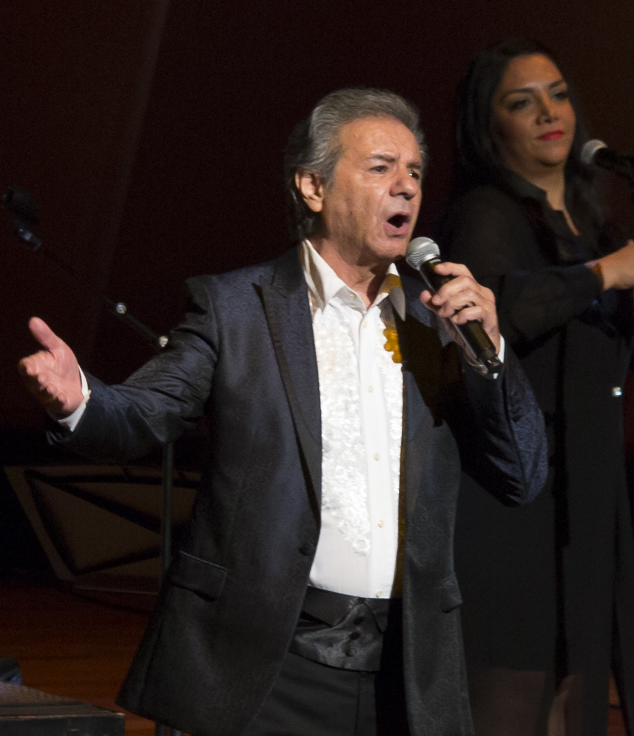 Aref Arefkia, Persian pop singer, Concert at Mt Royal University Bella Concert Hall, Calgary, Canada, Oct 2016. -- Photo by Dena Barmas / Persian Dutch Network